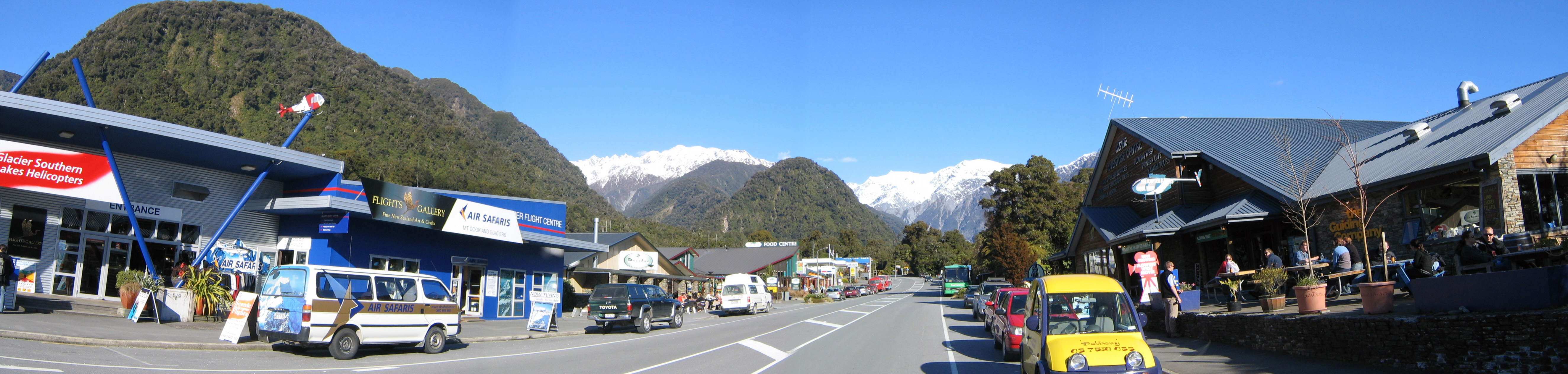 Franz Josef township, New Zealand.